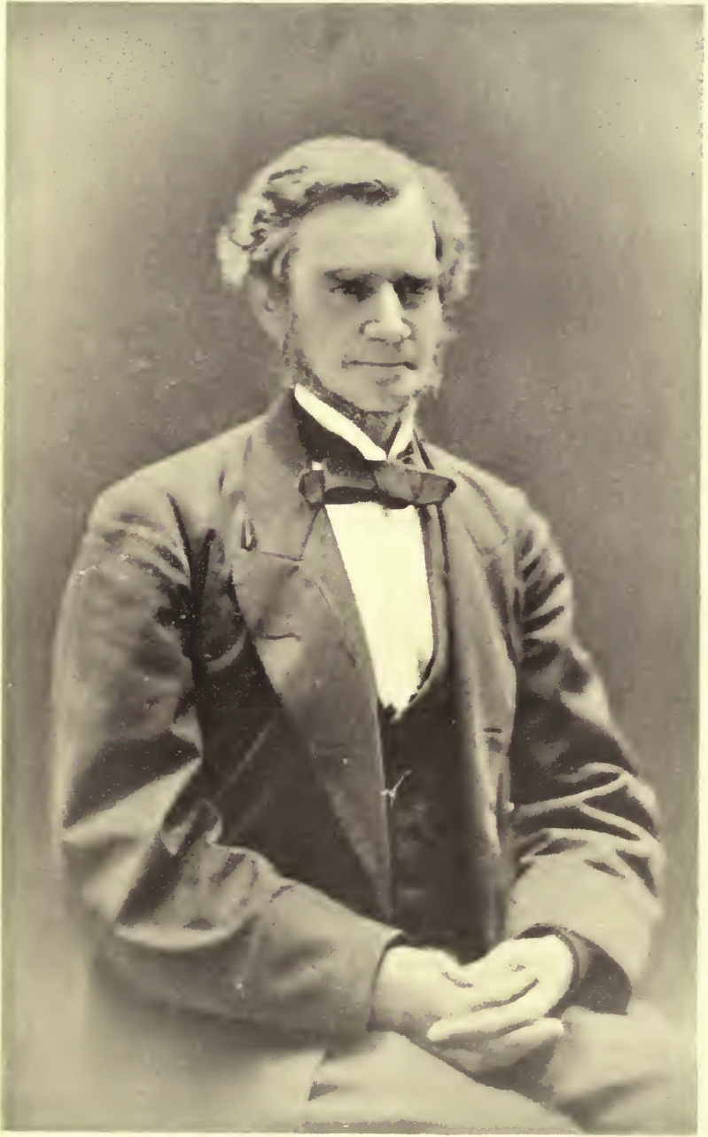 Source : Alfred SAKER, The Pioneer of the Cameroons. By his daughter Emily M. SAKER (1908) Page 190 or